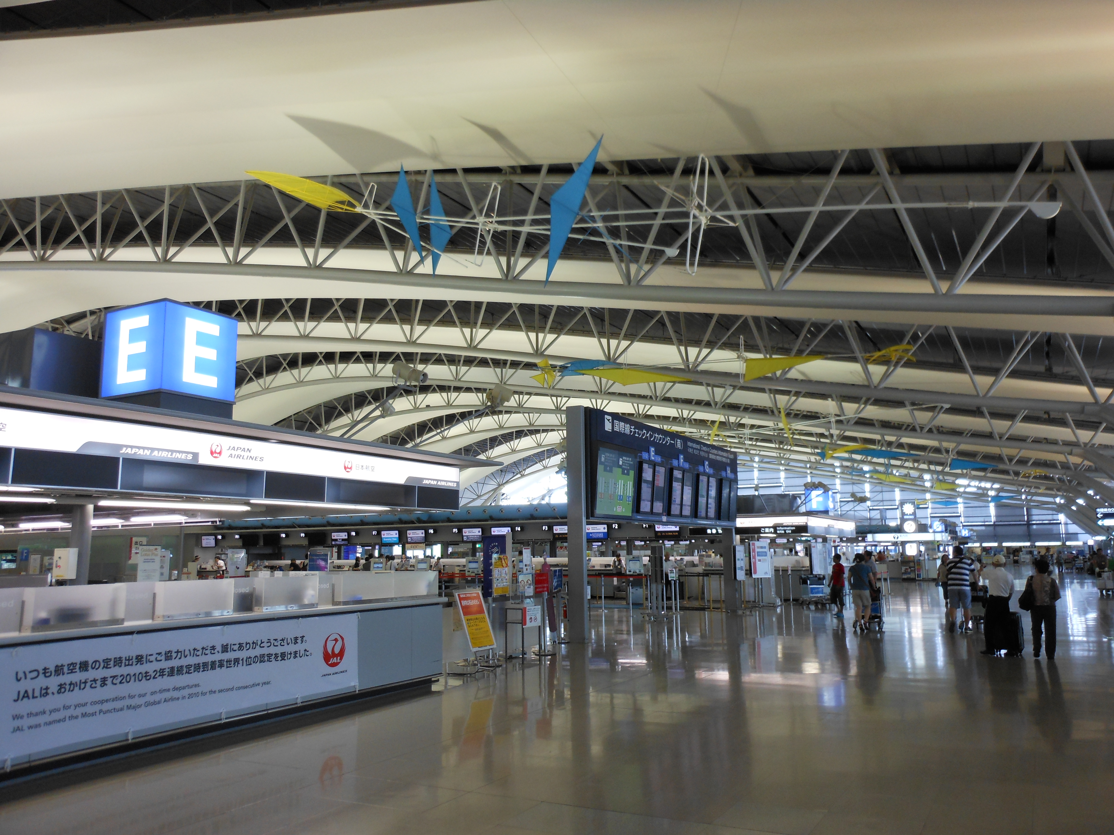 Kansai International Airport Departures,Izumisano-City Osaka Japan.